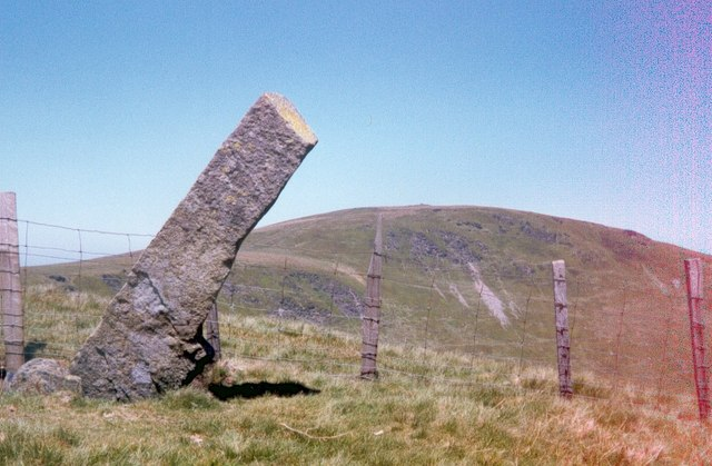 Maen Gwynedd Although not on the pass called Bwlch Maen Gwynedd this is the stone. Last time I passed (in 2006)the stone had fallen. Cadair Bronwen in the background.